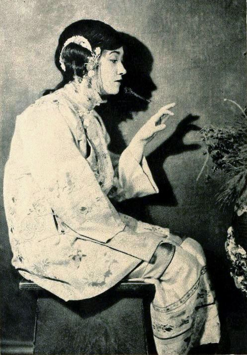 Actress Fay Bainter as Ming Toy in the Broadway play East is West, on page 24 of the September 1919 Shadowland.